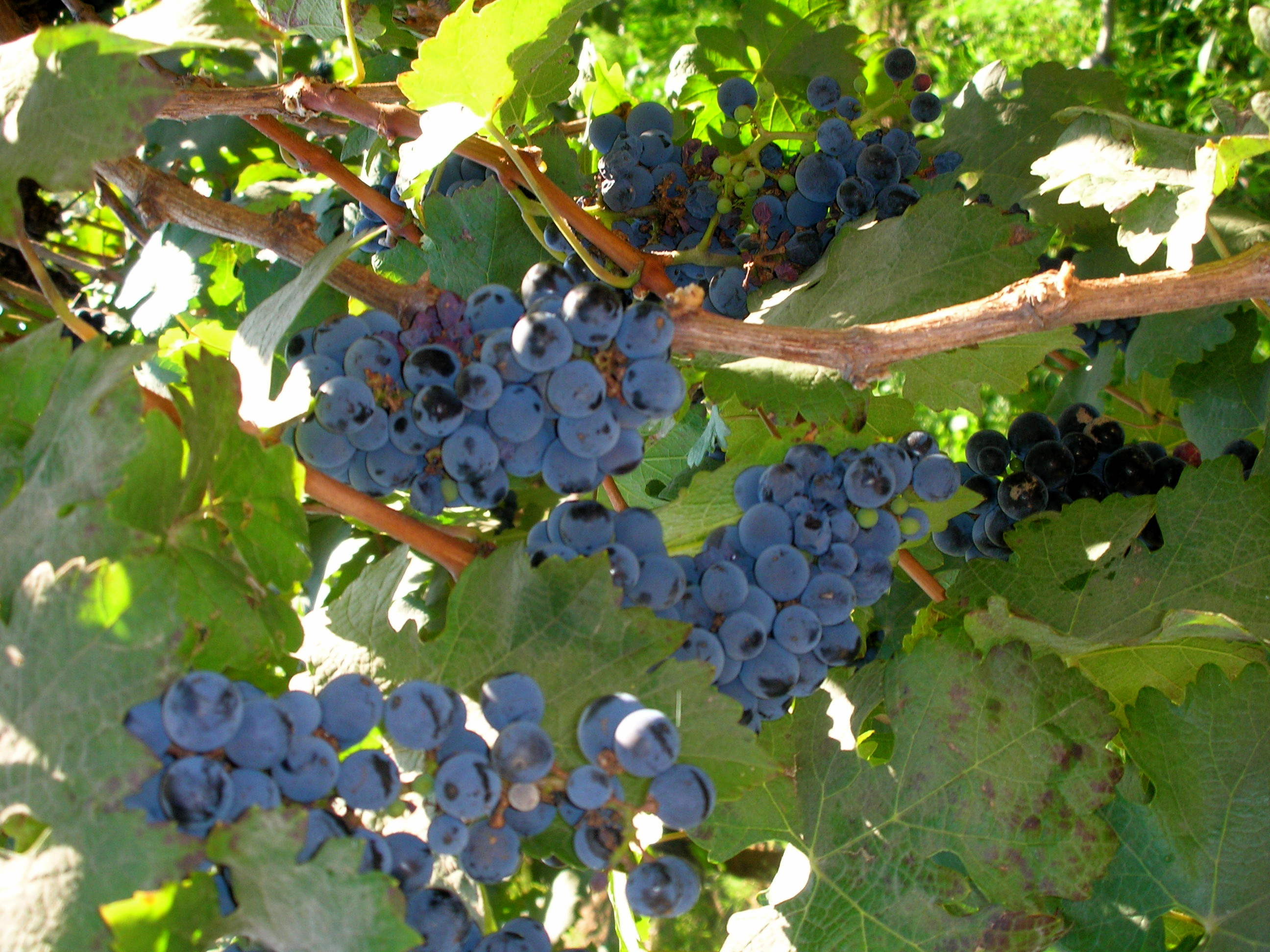 Grapes growing at the India winery Chateau Indage